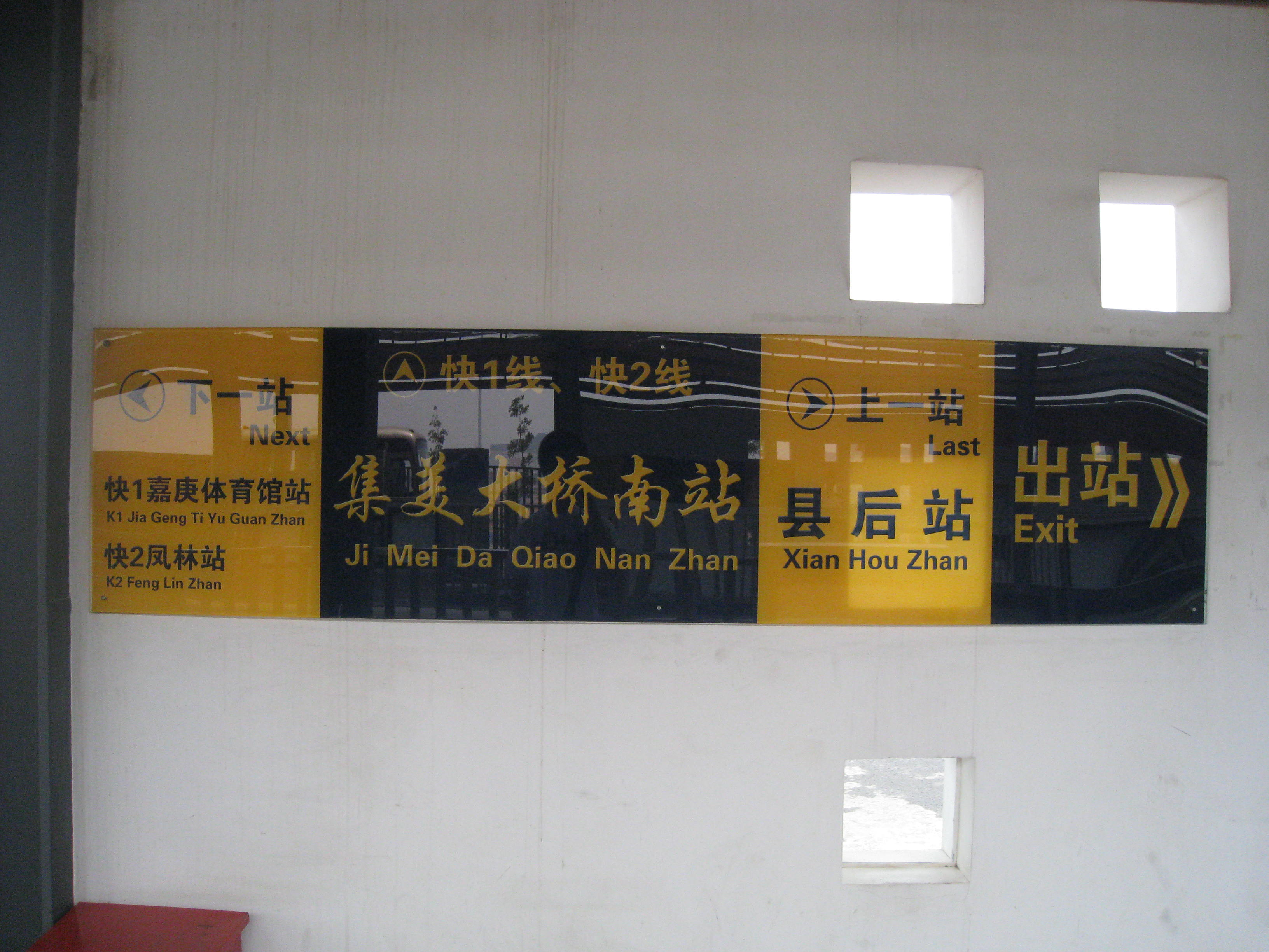 Jimei South Bridge Station